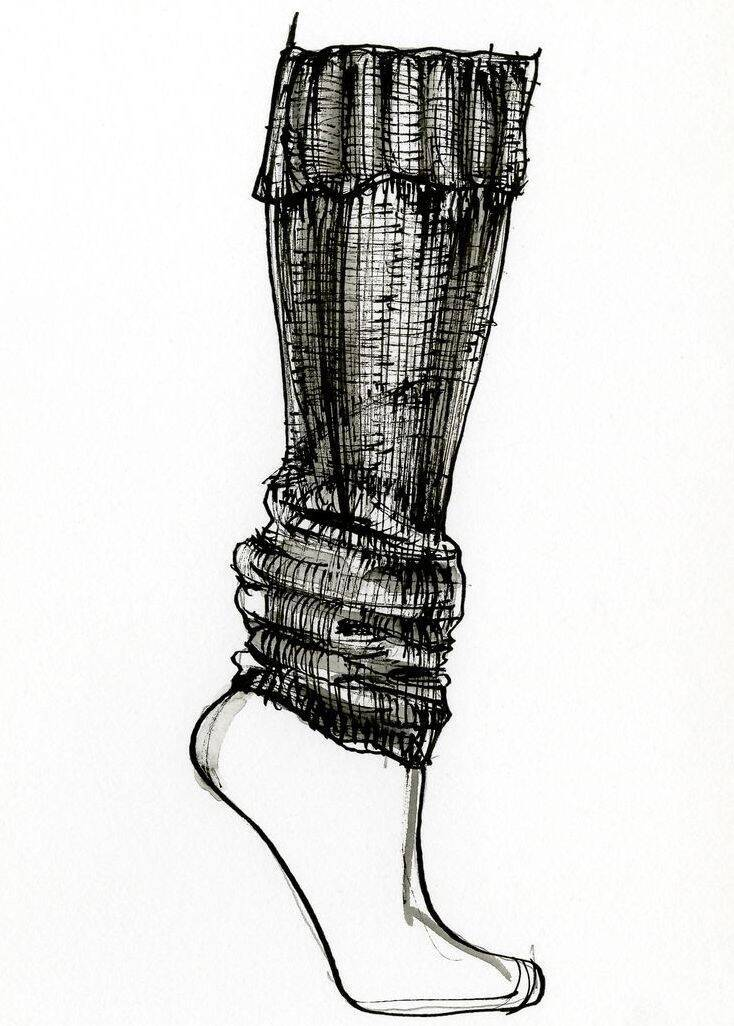 The description of the concept in this drawing is: Footless leg coverings usually worn over tights, trousers, boots, or the like, for warmth or as a fashionable accessory. (AAT)